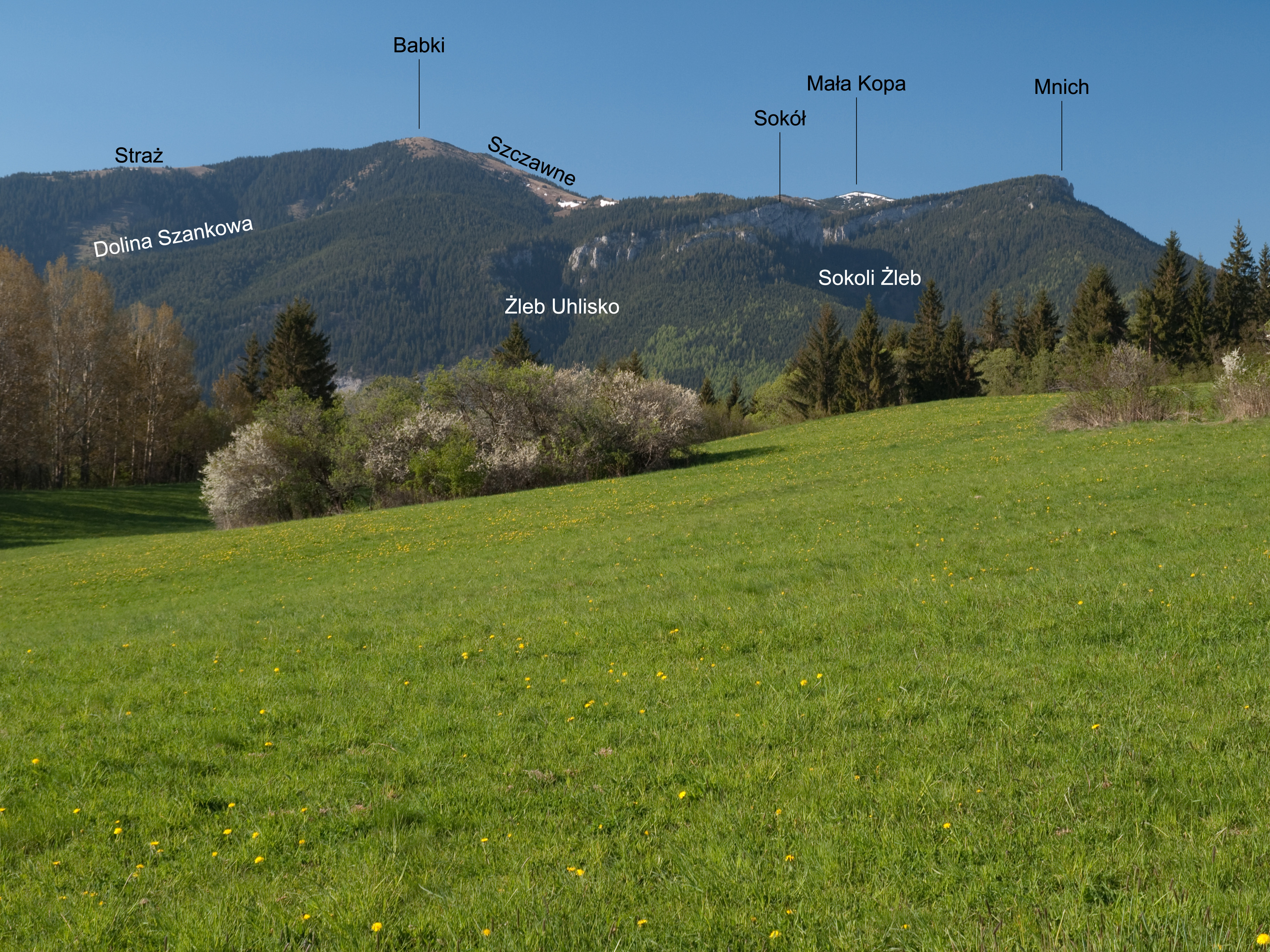 The massif of Babky (Polish names of places).